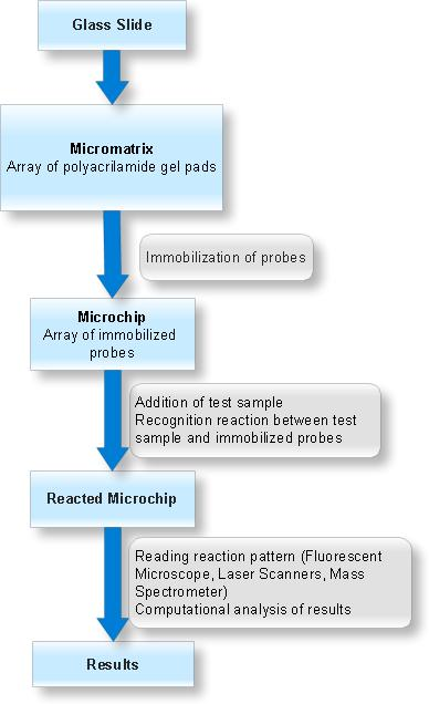 Shematic of MAGIChip Technology